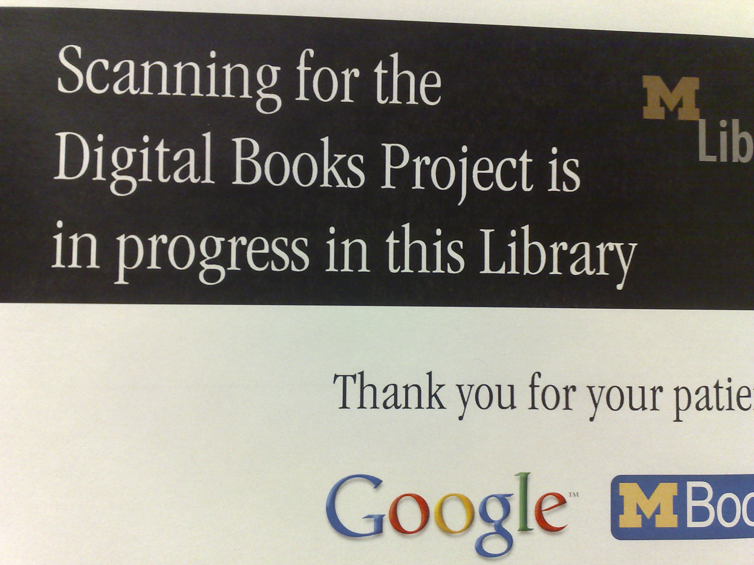 Google Digitization signs are all over the Michigan engineering library.